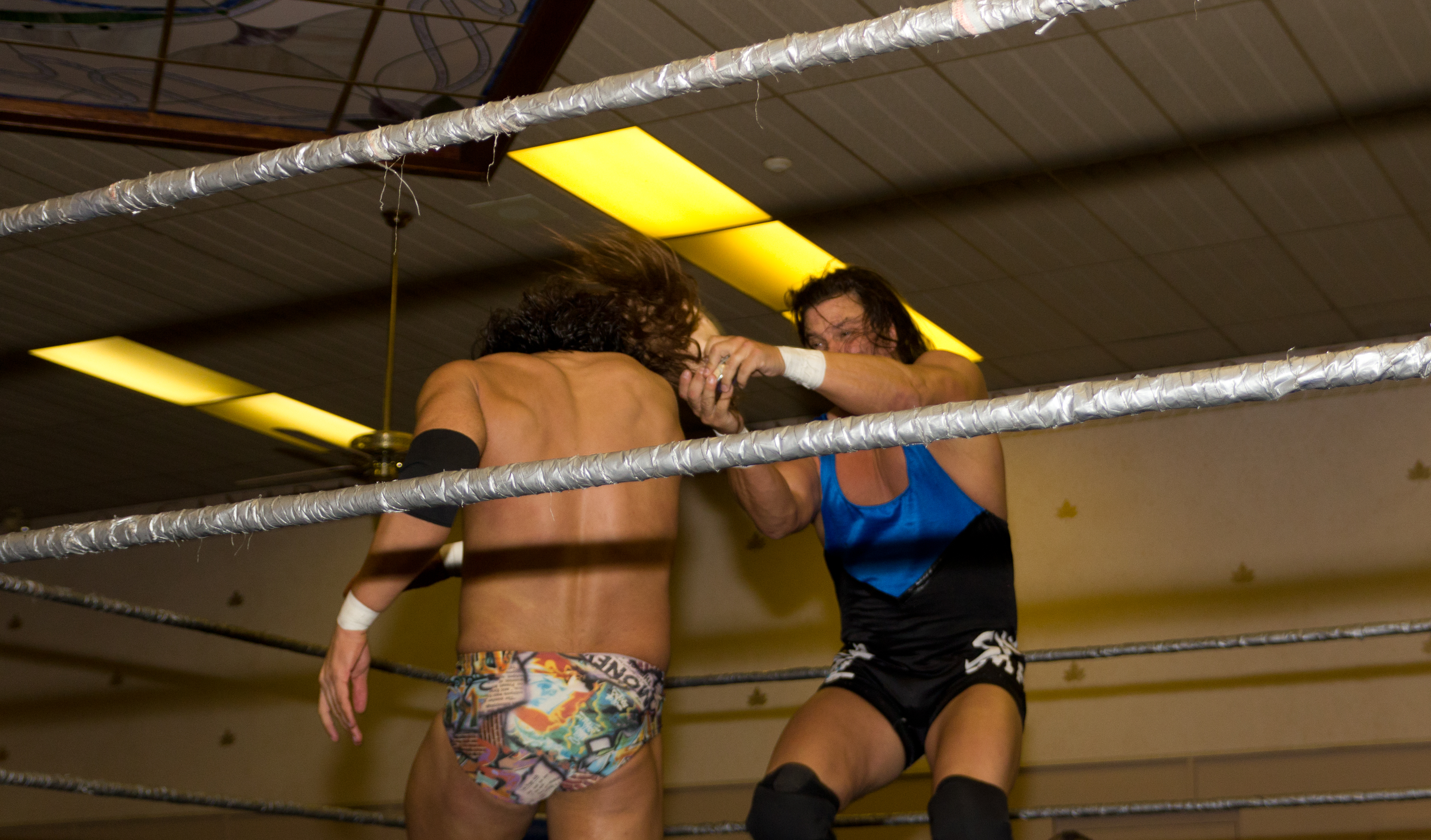 Al Snow delivers a "Head-shot" (strike with a mannequin head) to RJ City at Stampede Wrestling's November 6 2011 event.